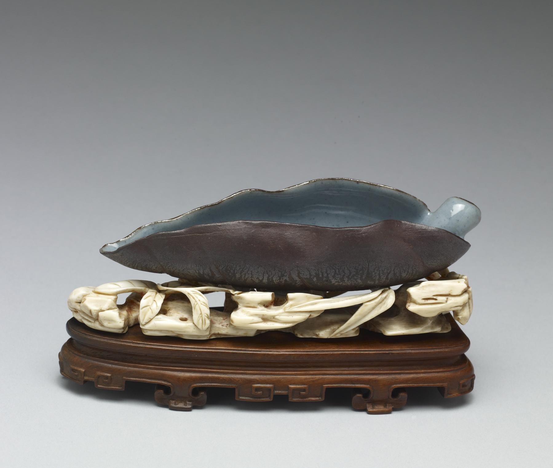 Brush-washers for removing excess ink are essential tools in the traditional art of Chinese calligraphy and painting. These functional objects were often made into beautiful works of art through exquisite design and the use of precious materials, such as porcelain, ivory, jade, and agate. This ceramic brush-washer, made in the form of a leaf, rests on a delicate ivory and wood base.